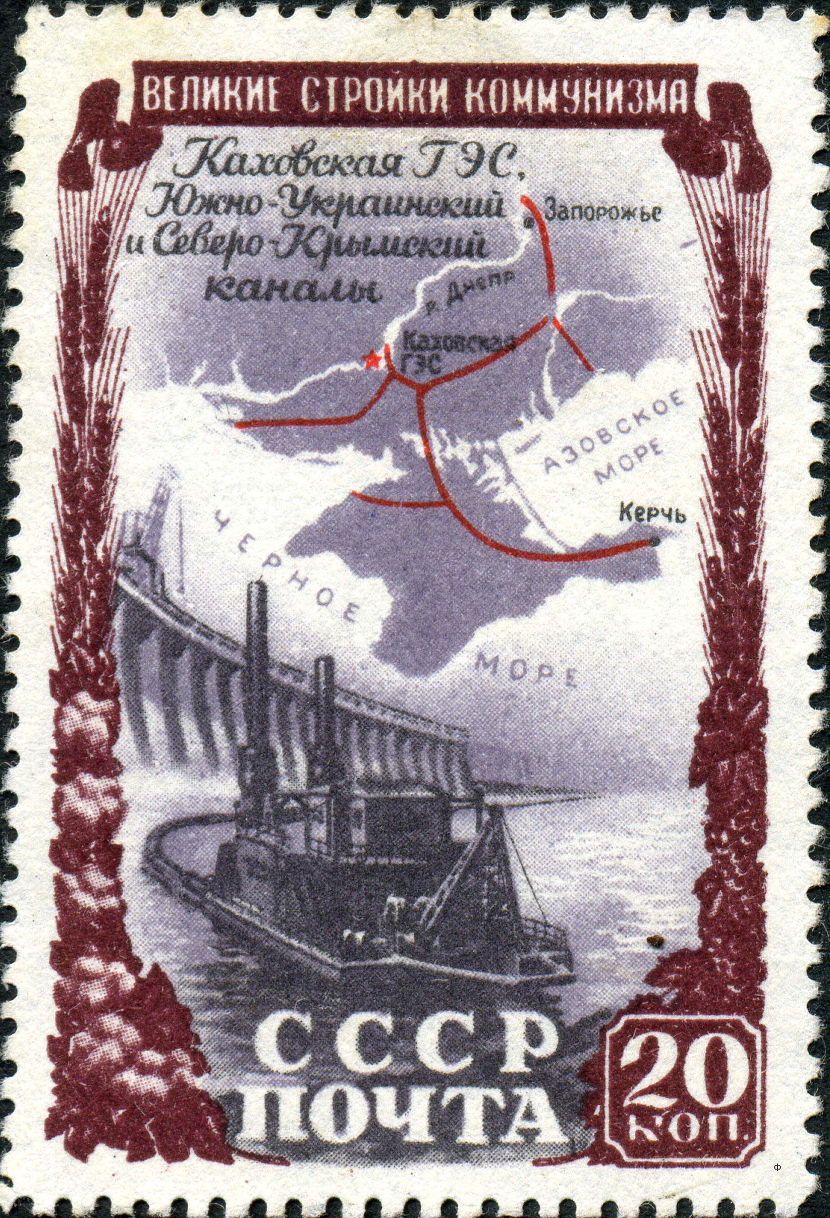 Soviet Union stamp, Construction projects of communism, HPP dam with the scheme of Kakhovka HPP, South-Ukrainian and Northern-Crimean canals in the background, 1951, 20 kop., CPA 1653.